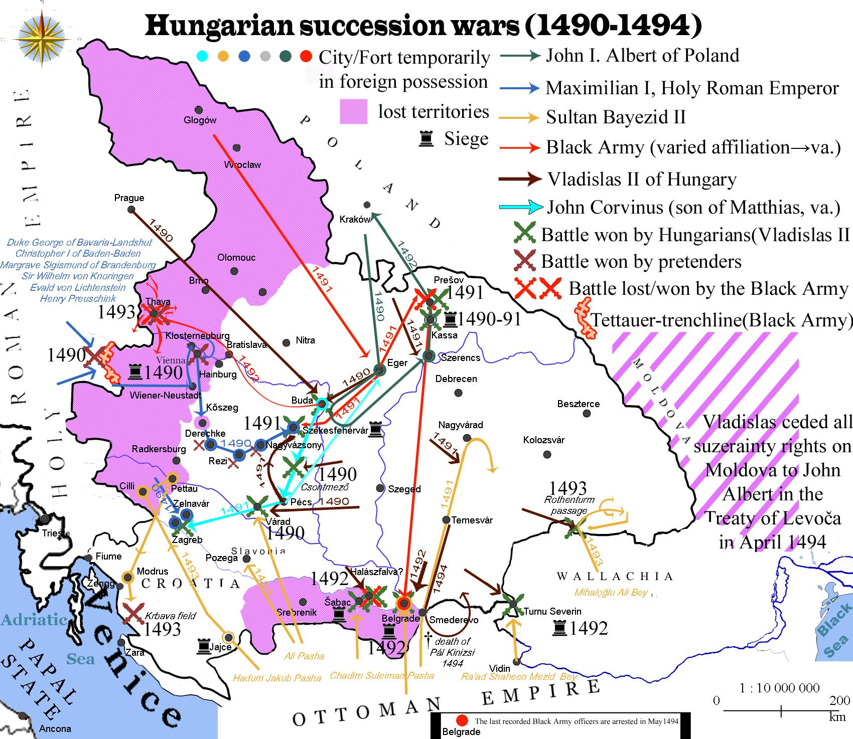 Map showing the intervention of pretenders to the throne of Hungary between 1490-1494 and the final battles of the Black Army of Hungary.